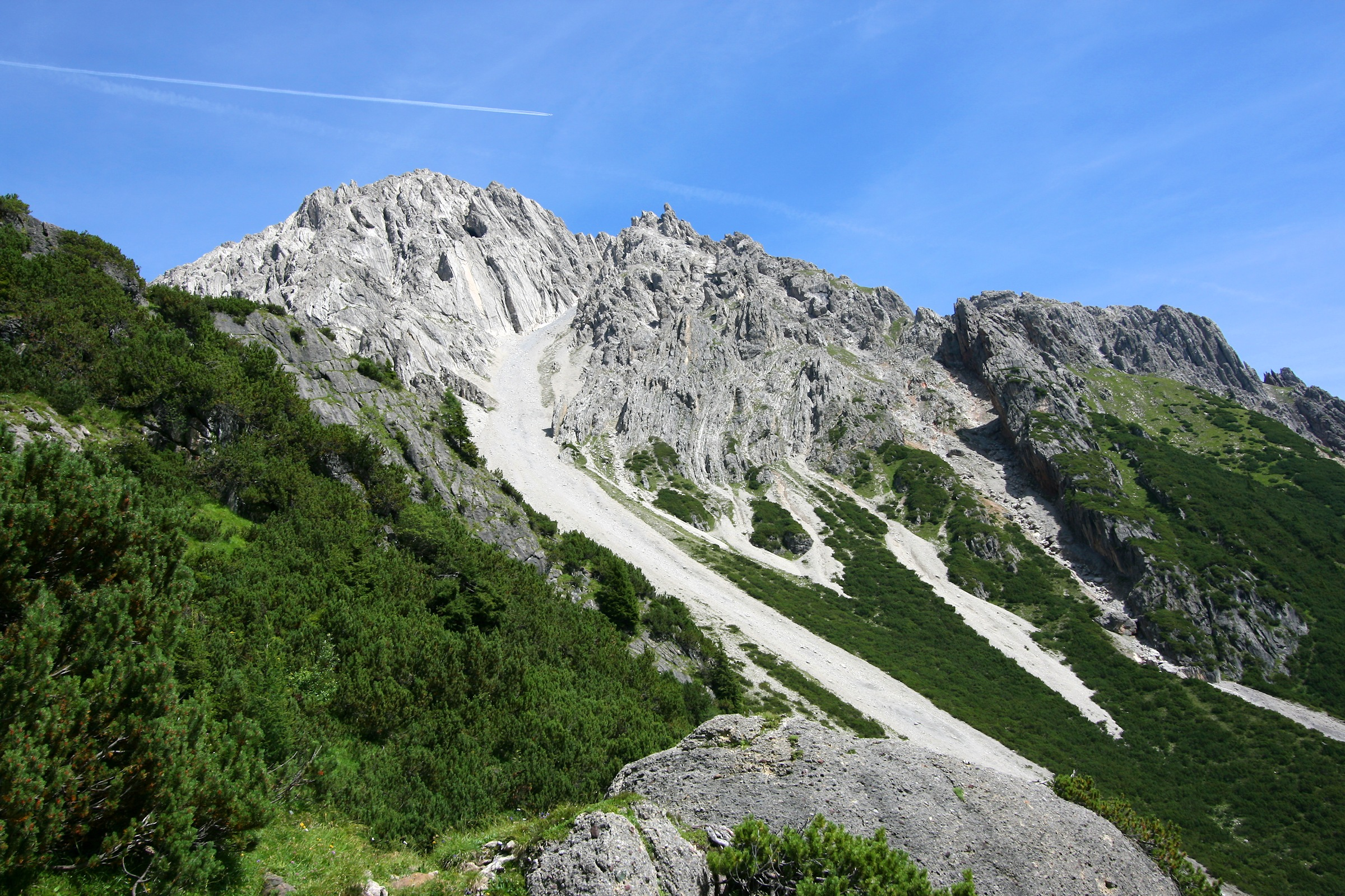 Hintere and Vordere Platteinspitze, mountains in Lechtal Alps in Austria.